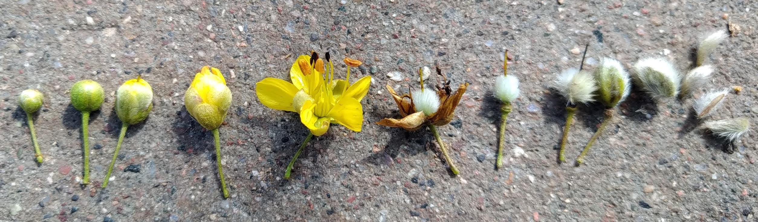 Multiple different stages of Creosote bush flower development